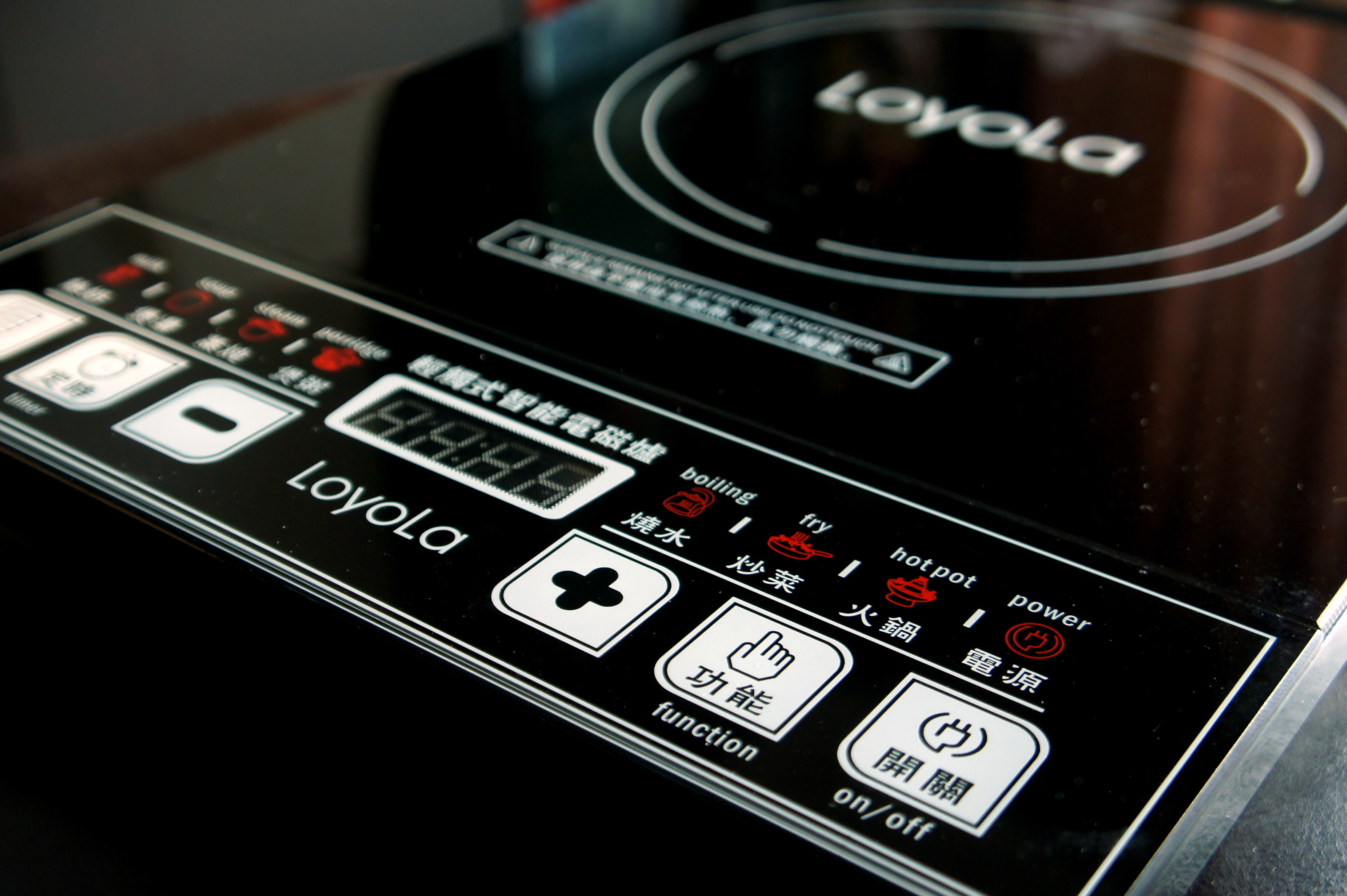 A LoyoLa Induction Cooker (PH12). (touch screen control)